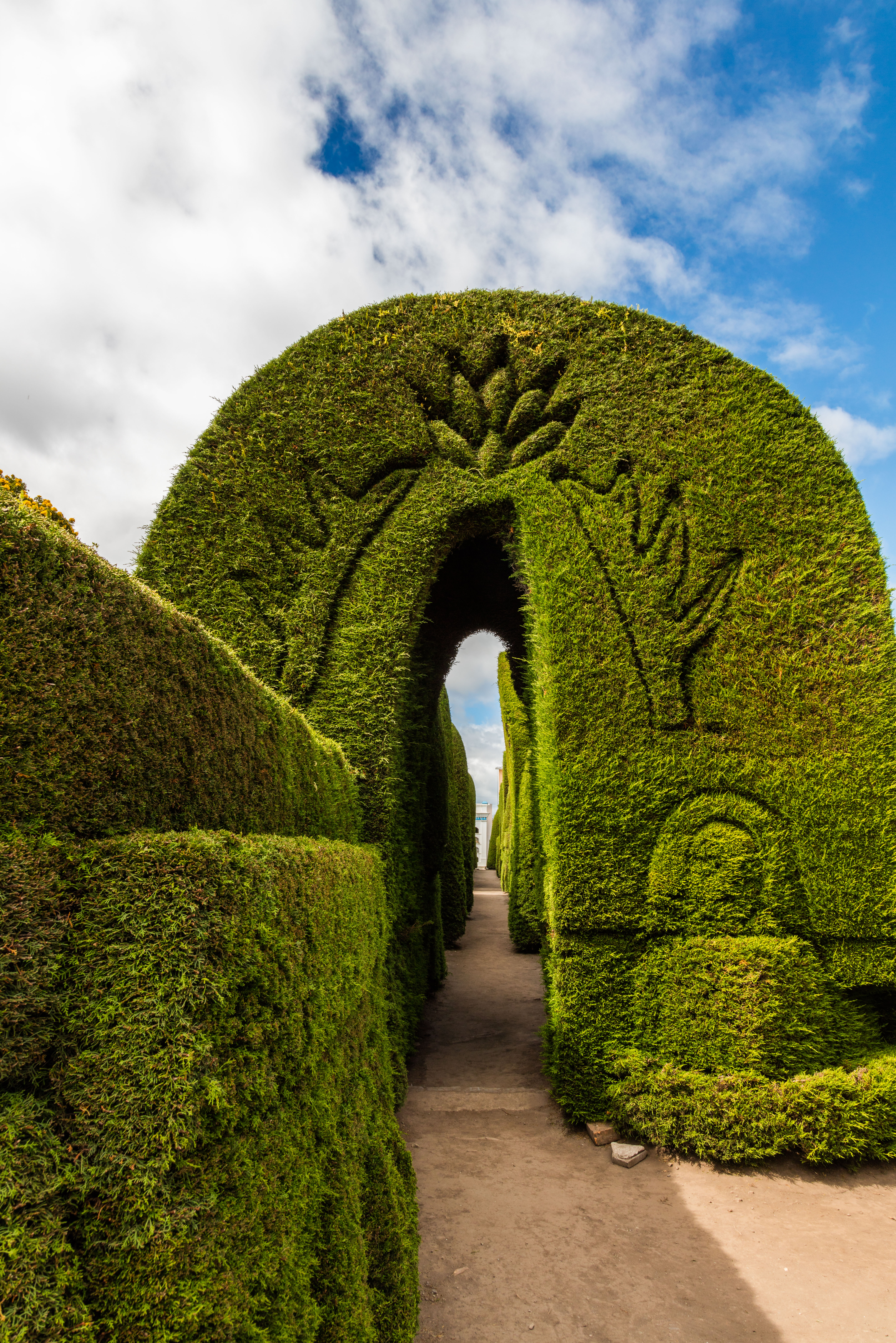 Cemetery, Tulcán, Ecuador